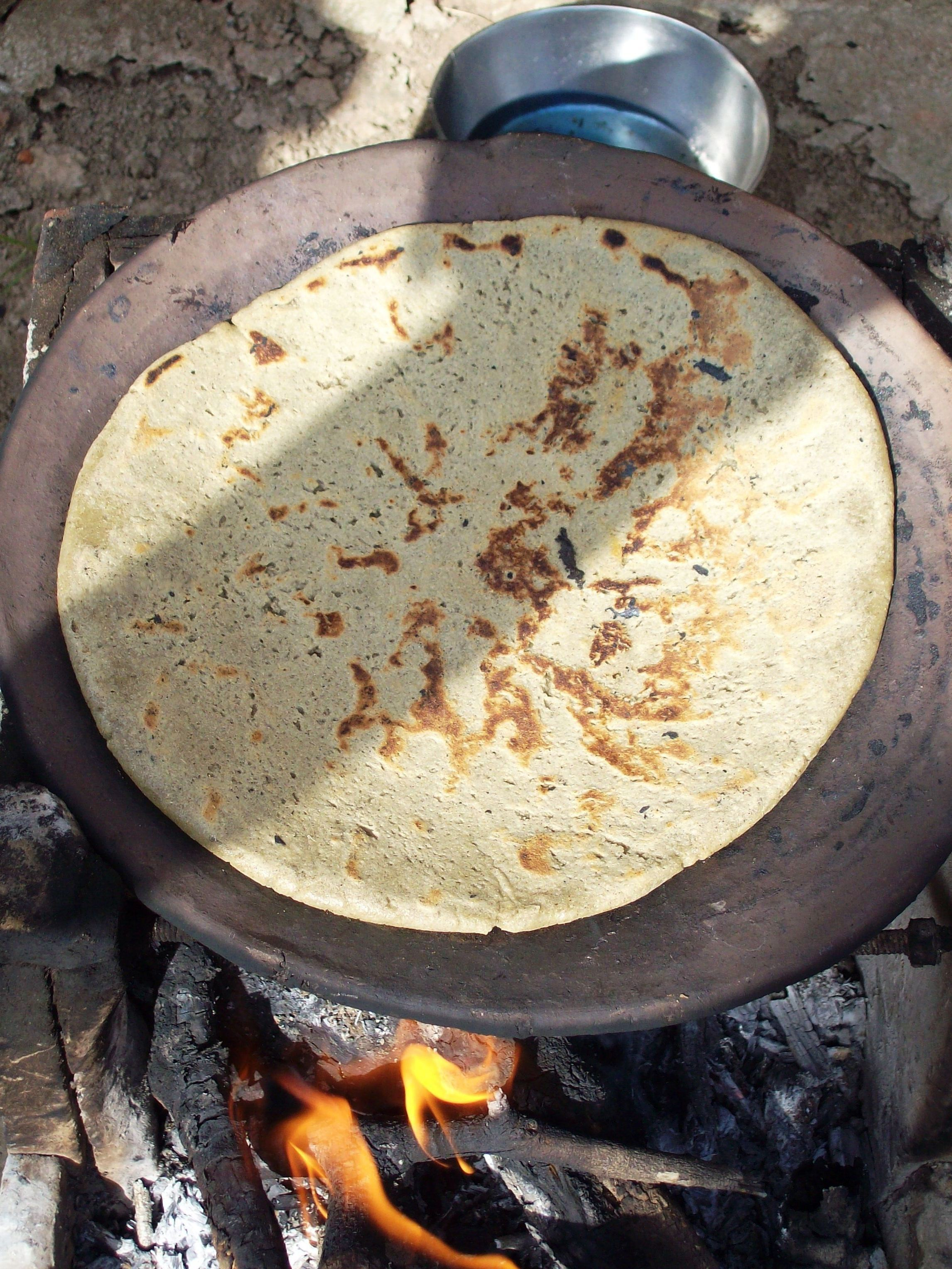 food of normal day in kutch gujarat